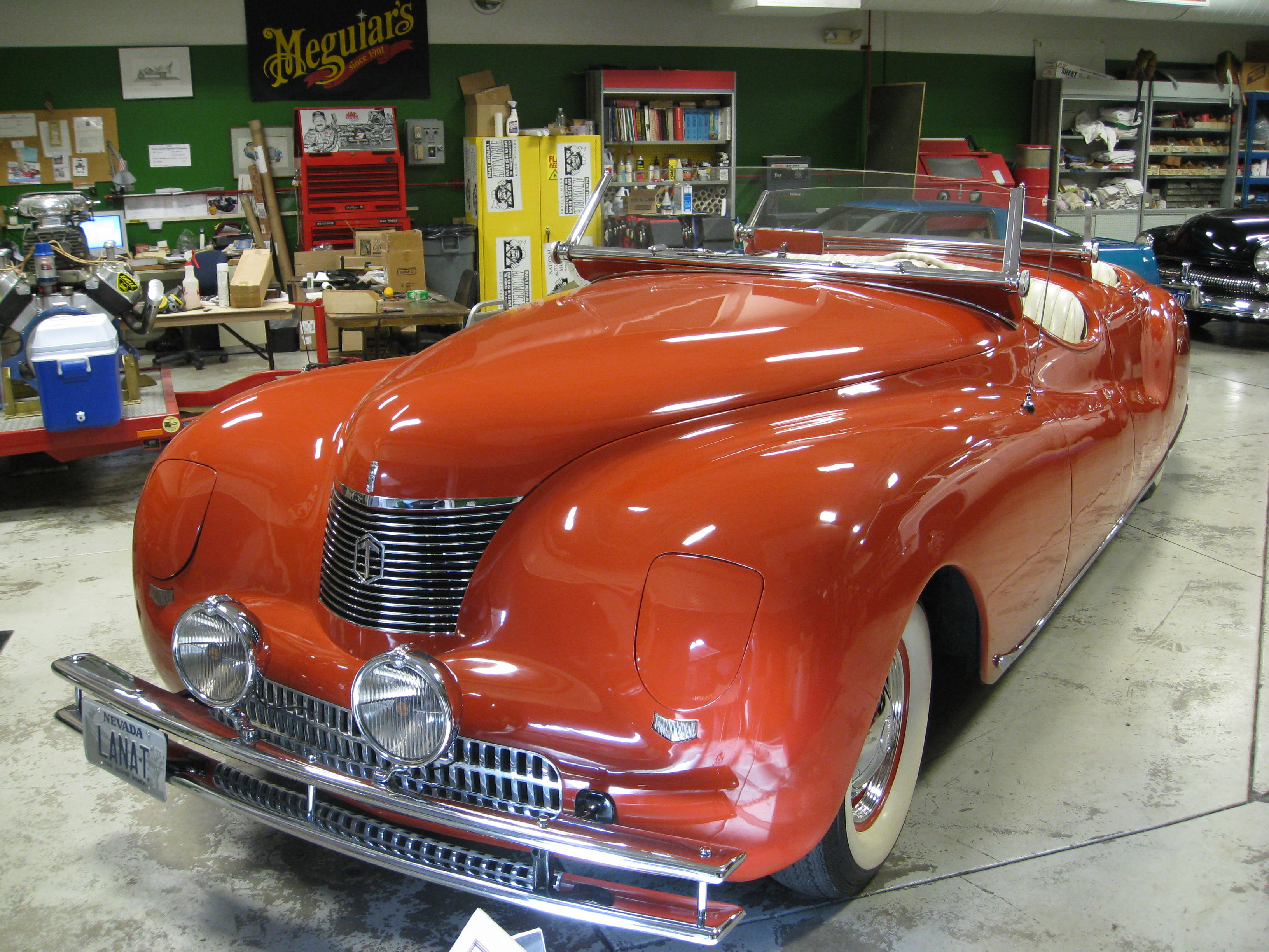 1941 Chrysler Newport Dual Cowl Phaeton MODEL Newport Dual Cowl Phaeton BUILT BY Chrysler Corporation Detroit, Michigan BODY BY Le Baron PRICE $4,725 ENGINE 8 Cylinder, 137 H.P. BORE 3-1/4" STROKE 4-7/8" DISPLACEMENT 323.5 Cu. In. The Chrysler Newport, one of the last dual cowl phaetons, was designed by Ralph Roberts and custom-built by LeBaron, Carrossiers in Detroit, Michigan. The car featured an all-aluminum body, concealed headlamps, folding windshield and hide-away top. There were a total of six Newports constructed by Chrysler as show vehicles and four are known to exist today. One of the Newports was selected as the 1940 Indianapolis 500 Pace Car. This was the first and still the only time a non-production car has been used in this event. The owner of the car displayed here was millionaire playboy Henry J. "Bob" Topping, former husband of Lana Turner. Topping customized the car by substituting a Cadillac engine and transmission for the Chrysler components. He also personalized the car by having his name cast into the hubcaps and engine valve covers and adding his initials to the grill. i120708 077